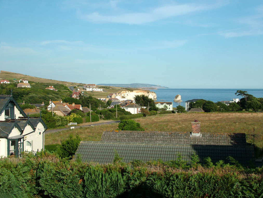 Dimbola Lodge overlooking Freshwater Bay, 2006. Photographer: D P Orman